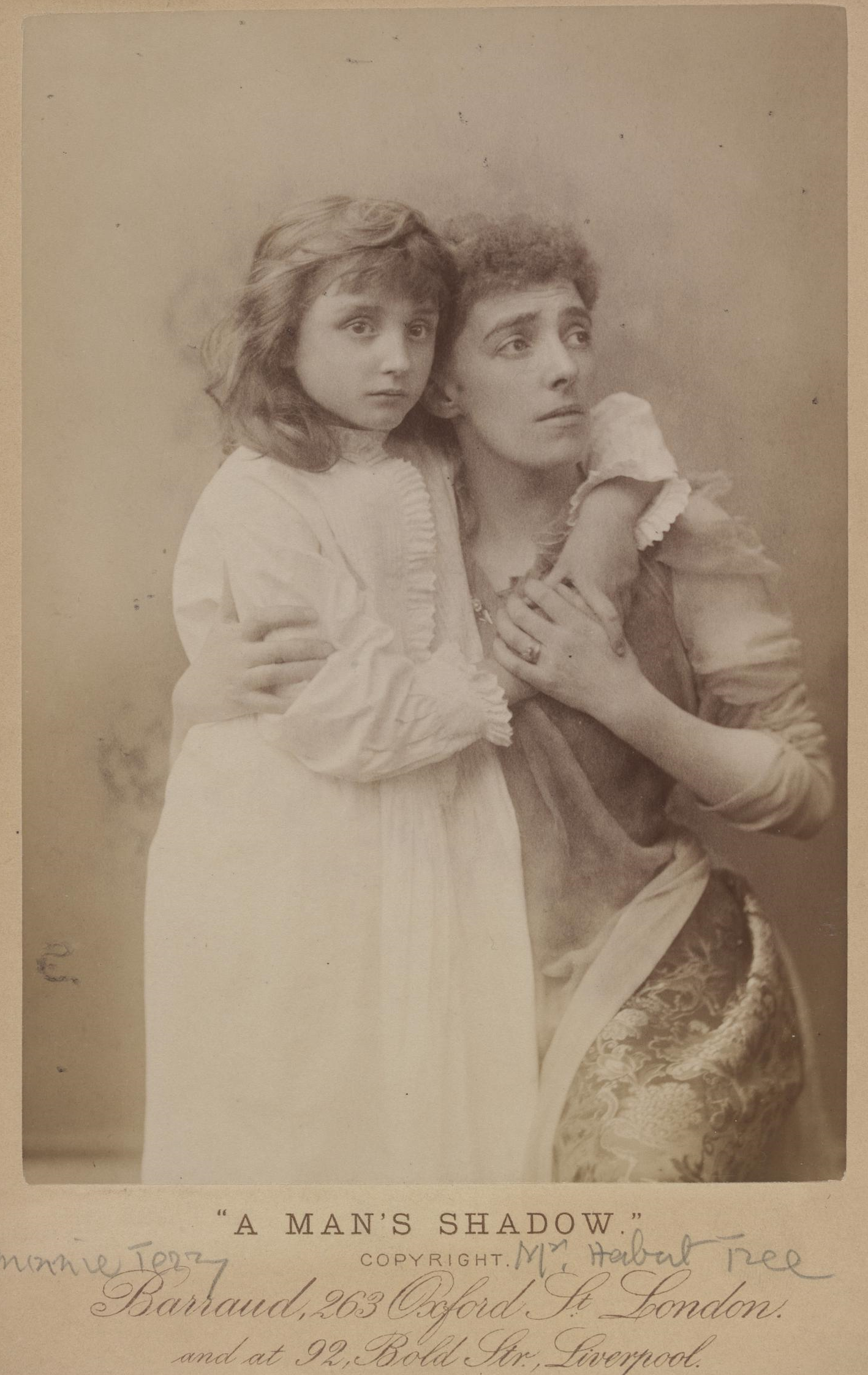 Object: Photograph Place of origin: London (photographed) Date: 1889 (photographed) Artist/Maker: Barraud, Herbert Rose, born 1845 - died 1896 (photographer) Materials and Techniques: Photographic print on card Credit Line: Gabrielle Enthoven Collection V&A's collections. Museum number: S.4000-2015 Gallery location: In Storage